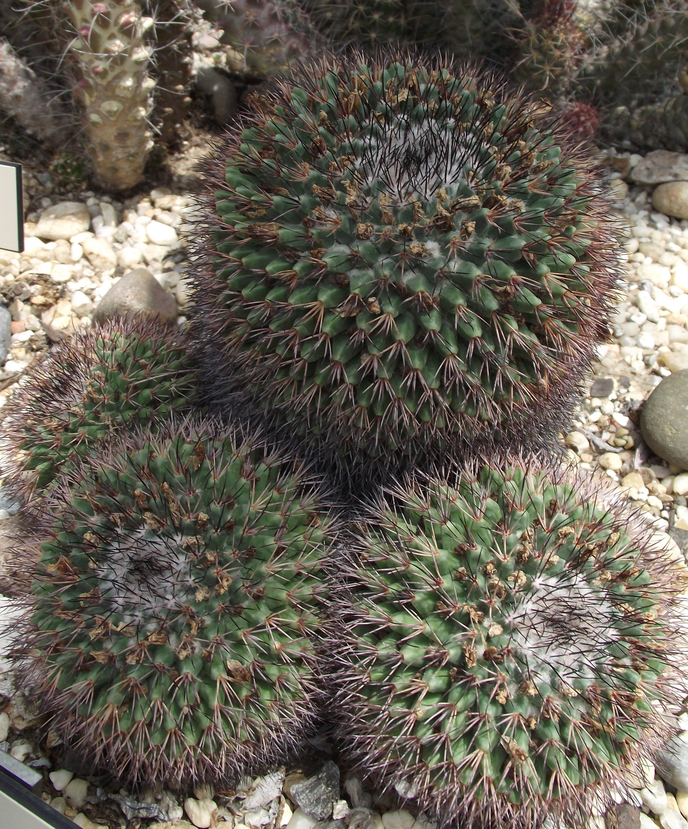 Mammillaria bocensis at New York Botanical Garden, Bronx, NY, USA